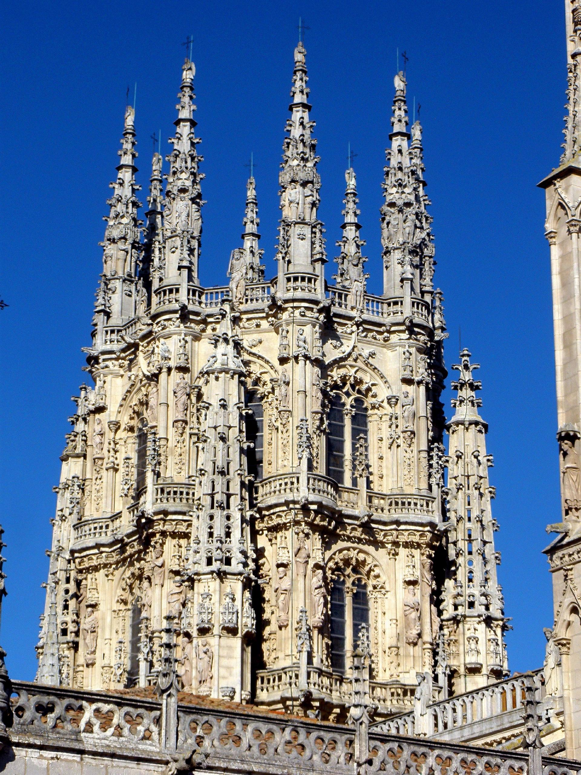 Cimborrio de la Catedral de Burgos